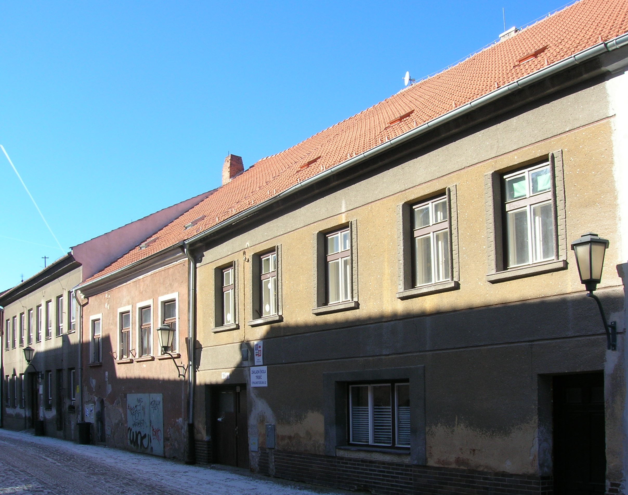 Třebíč-Zámostí. School